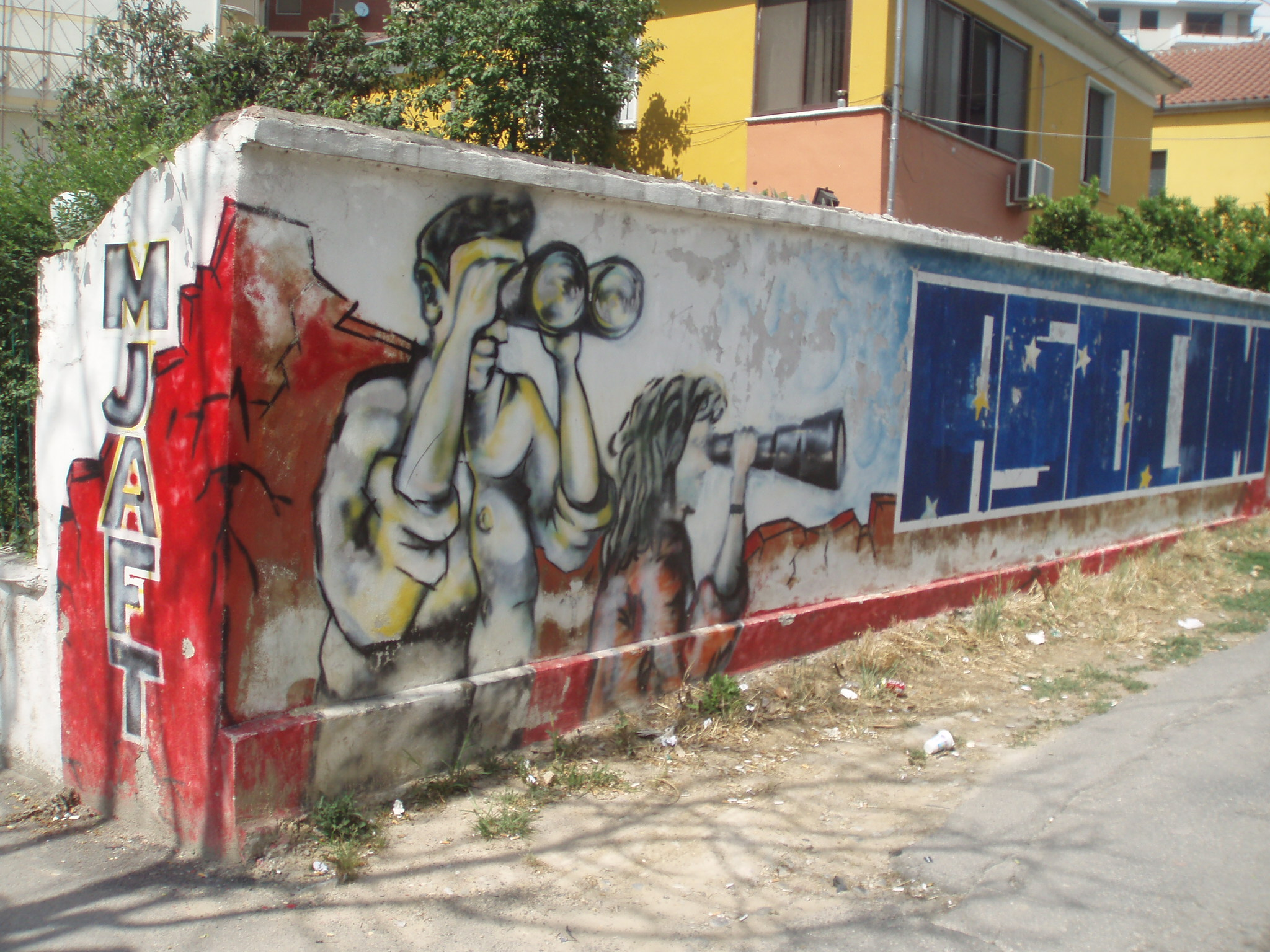 The office of "Levizja Mjaft!" in Tirana, Albania